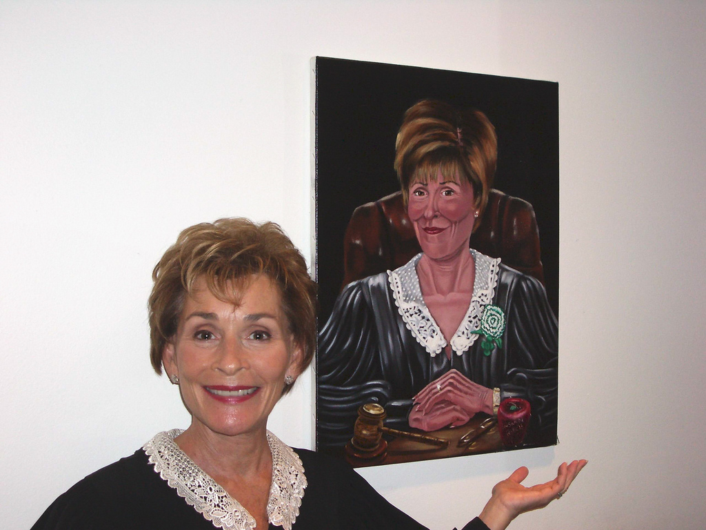 Photo of Judge Judy next to an 18 x 24 oil portrait by Susan Roberts.